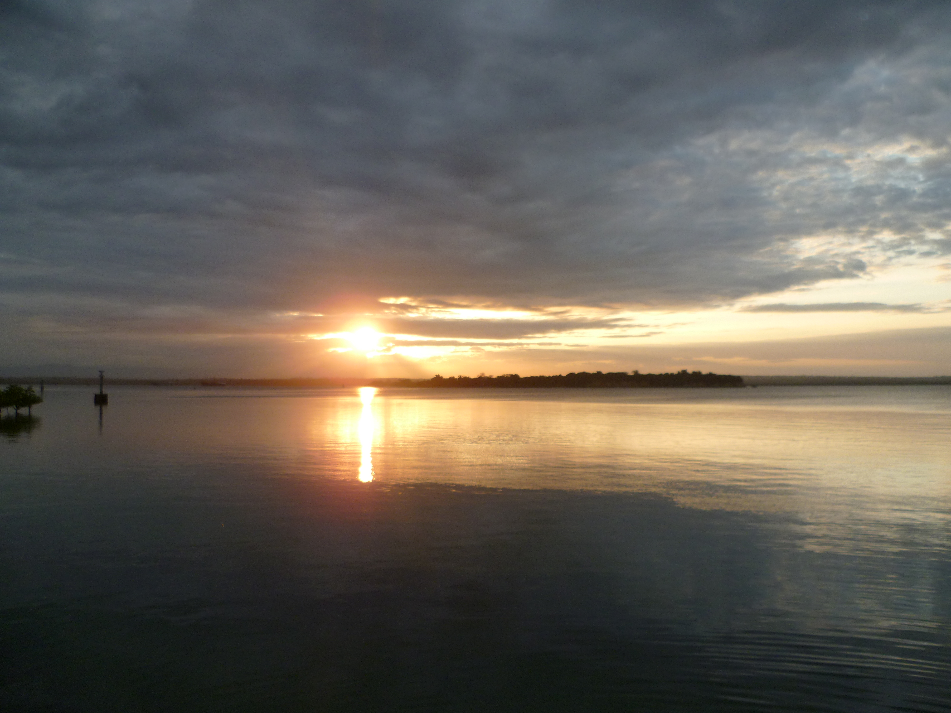 Sunset over Tanga Bay